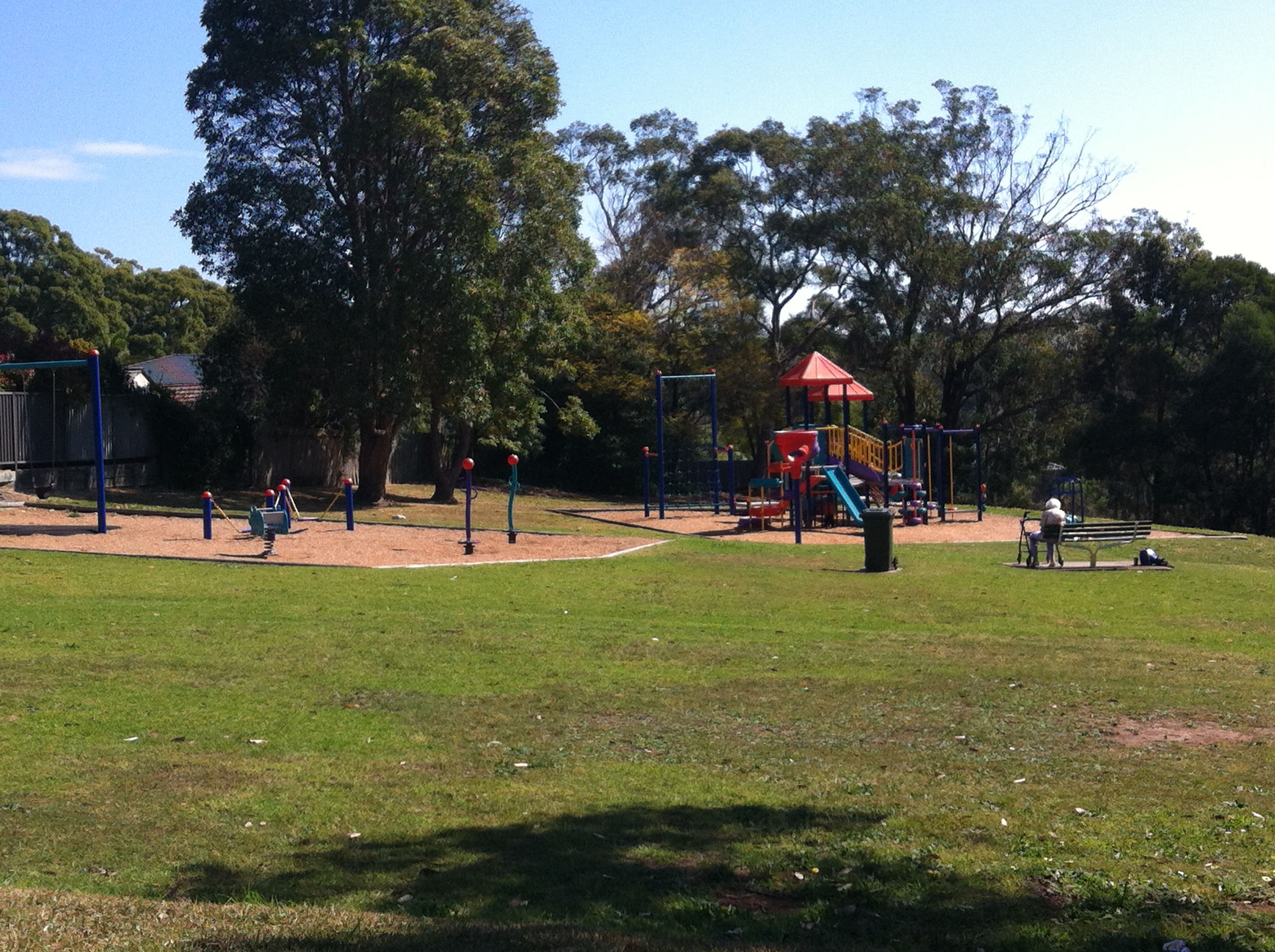 Beatty Street Reserve, Mortdale Heights